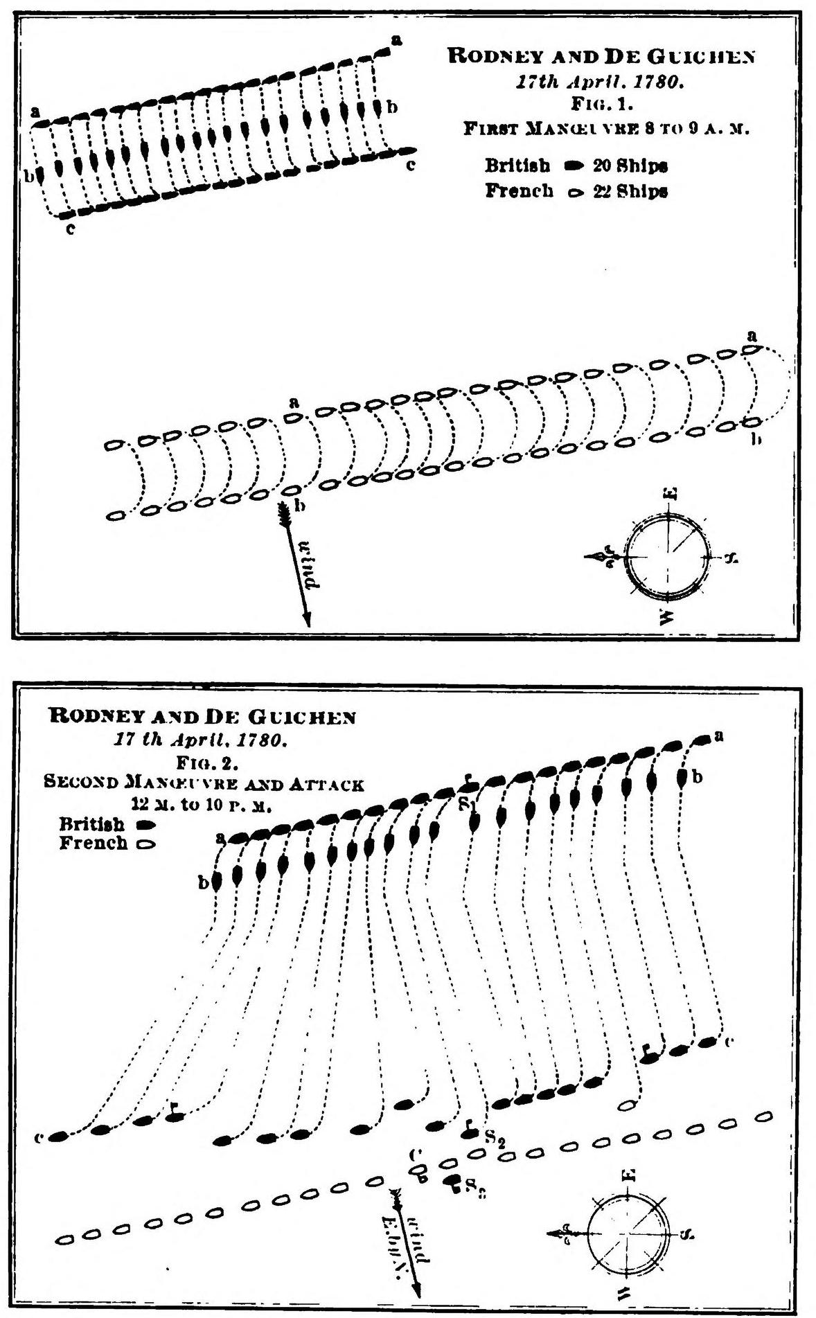 The two phases of the battle. Fig 1: The approach operations to catch the wind. Fig.2, S1: HMS Sandwich, 90 guns (Rodney), C: Couronne, 80 guns (Guichen), then aa bb: movement of the British battle line. Cc: position of the English fleet at the end of combat. S2: position of HMS Sandwich during the fight. S3: position of HMS Sandwich distraught at the end of combat (derived through the French line). Note: The plan includes a small error. He gave the French fleet to 22 vessels so that there are 23 in the drawing, which corresponds to reality.